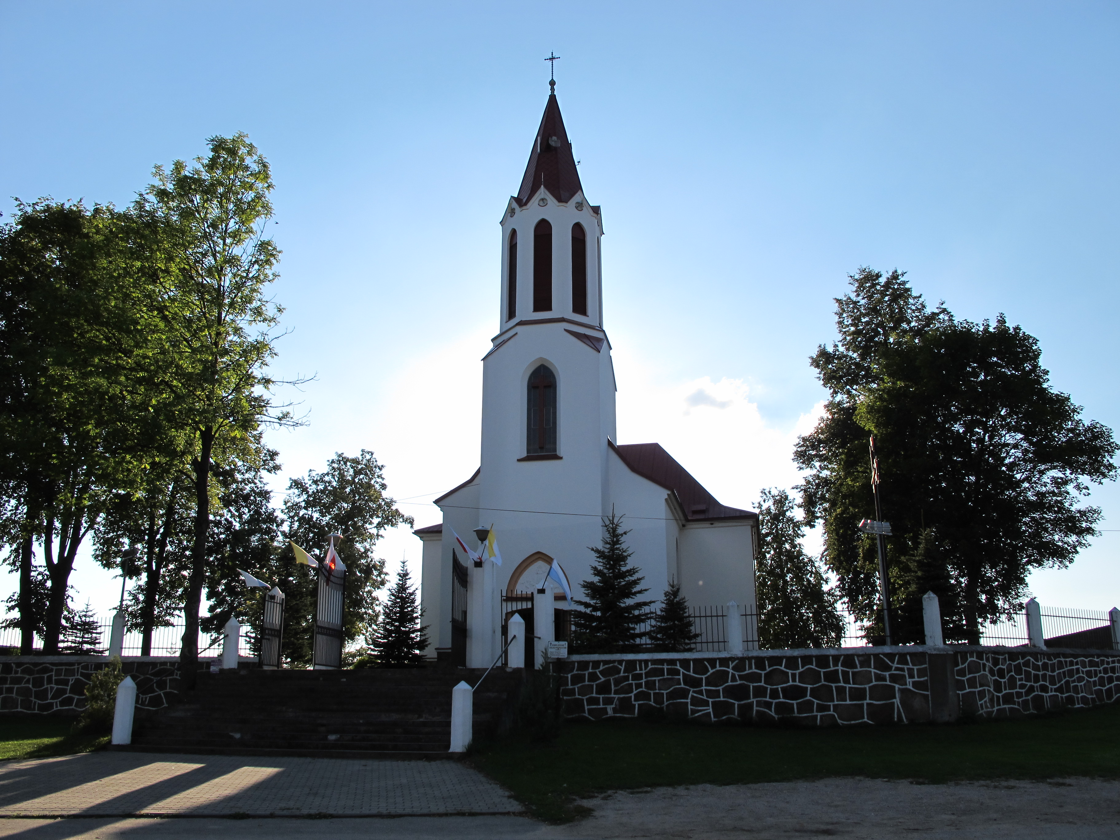 Sacred Heart of Jesus church in Stara Rozedranka village, gmina Sokółka, podlaskie, Poland